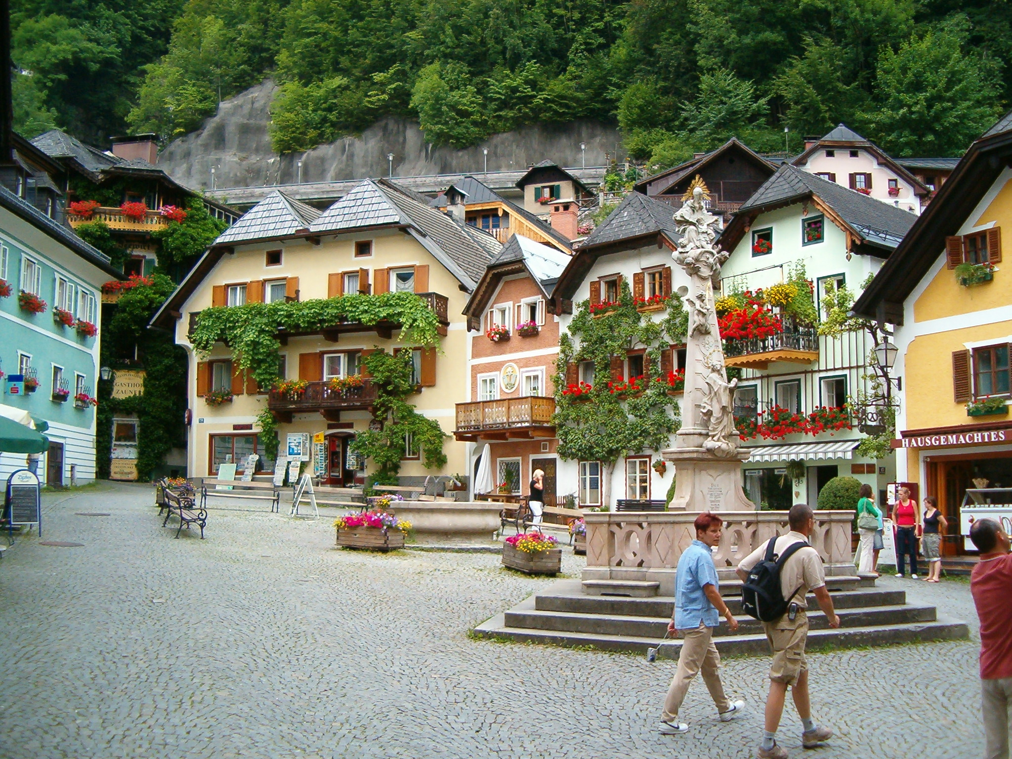 Hallstatt town in Austria.